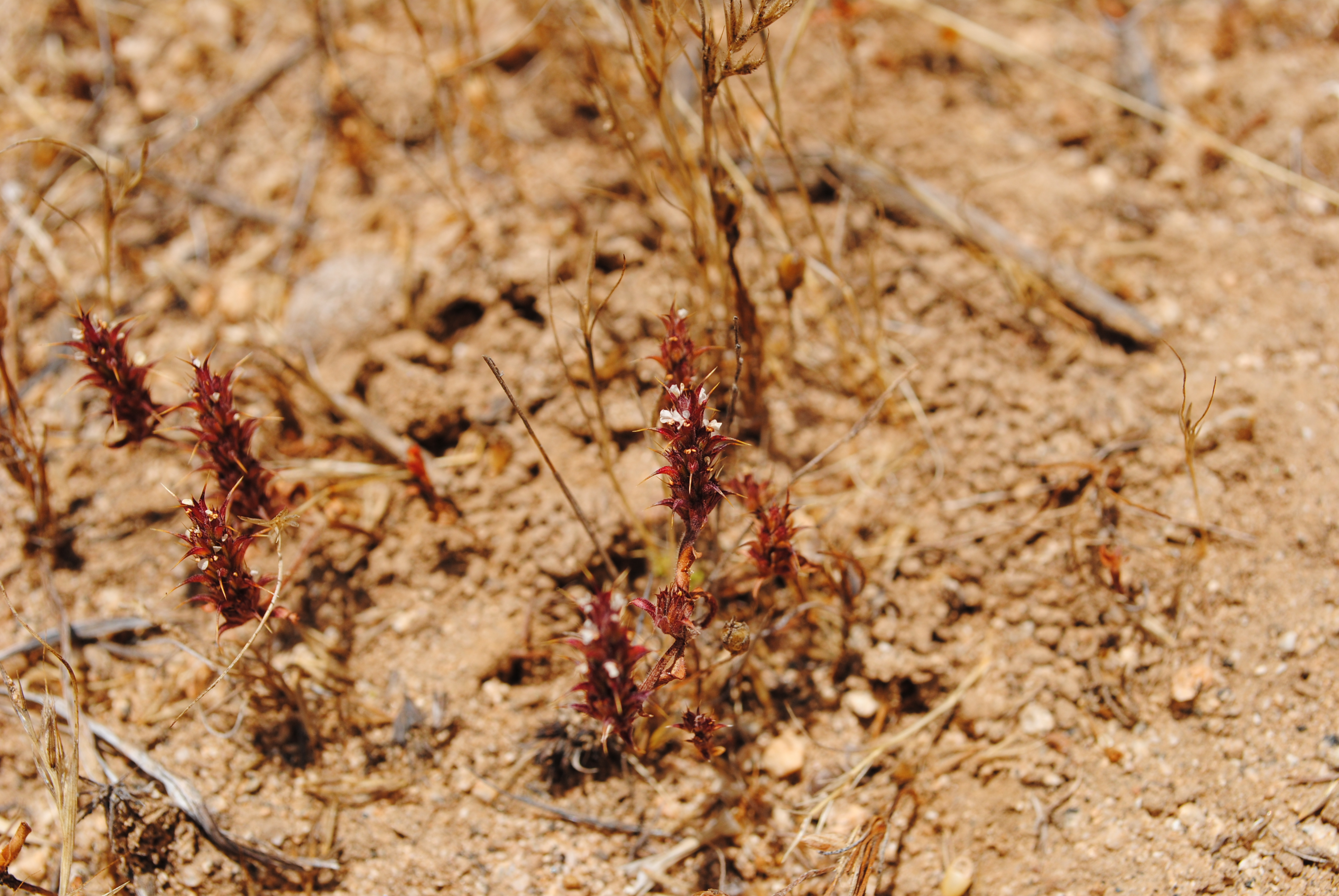 Pleurophora pulsilla is an annual Lythraceae. Its endemic for Chile Place: Region de Coquimbo; Valle de Elqui; Quebrada de Talca; Los Rulos